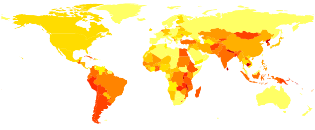 Percentage of babies exclusively breastfed for the first six months of life. CaptionBreastFeeding